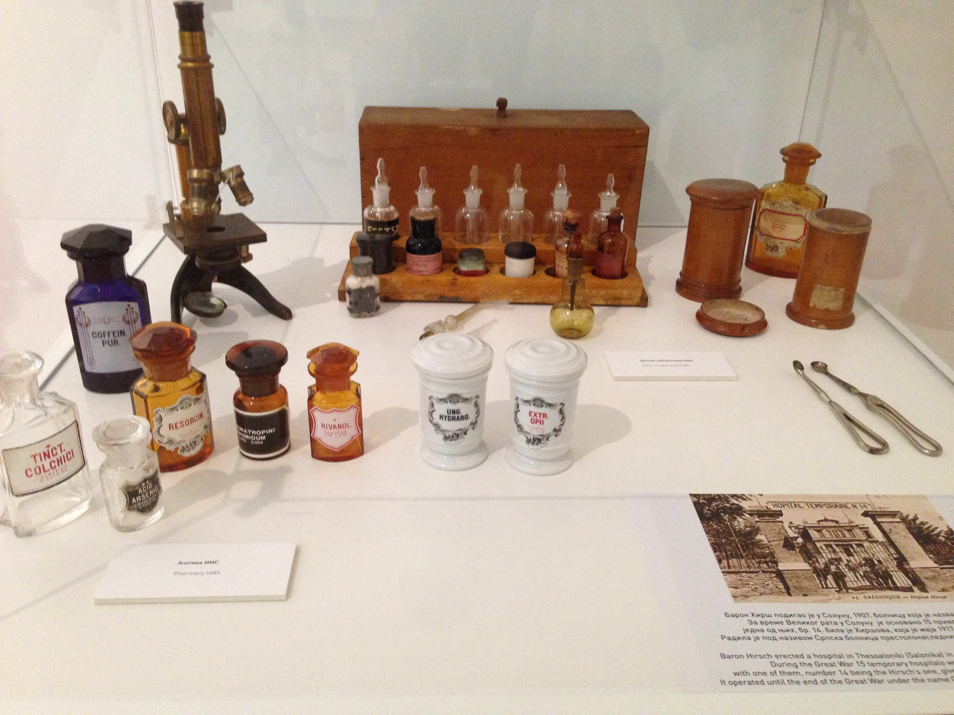 Medical equipment in the - First World War The Thessaloniki front